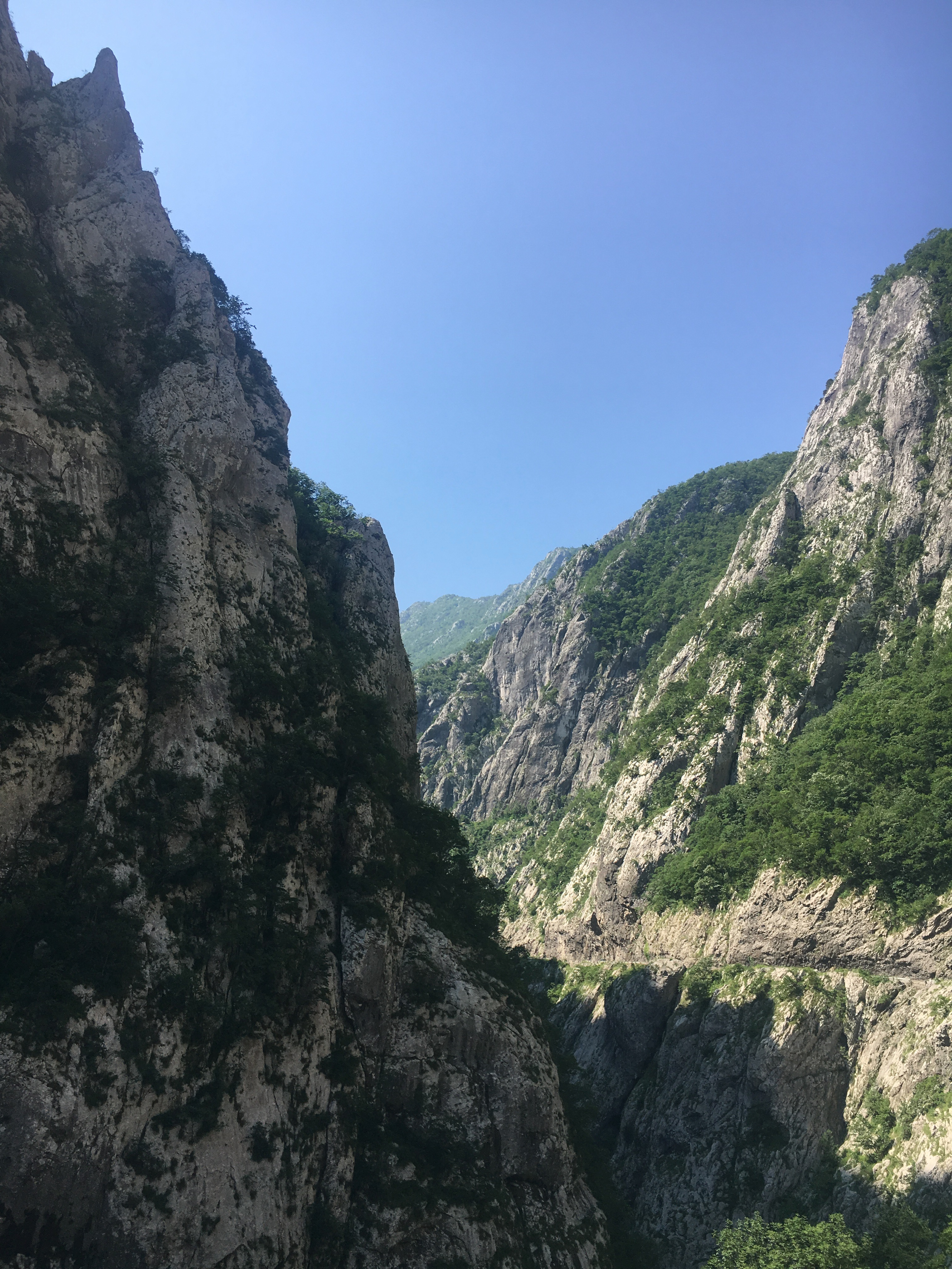 Morača canyon in Dinaric Alps, Montenegro